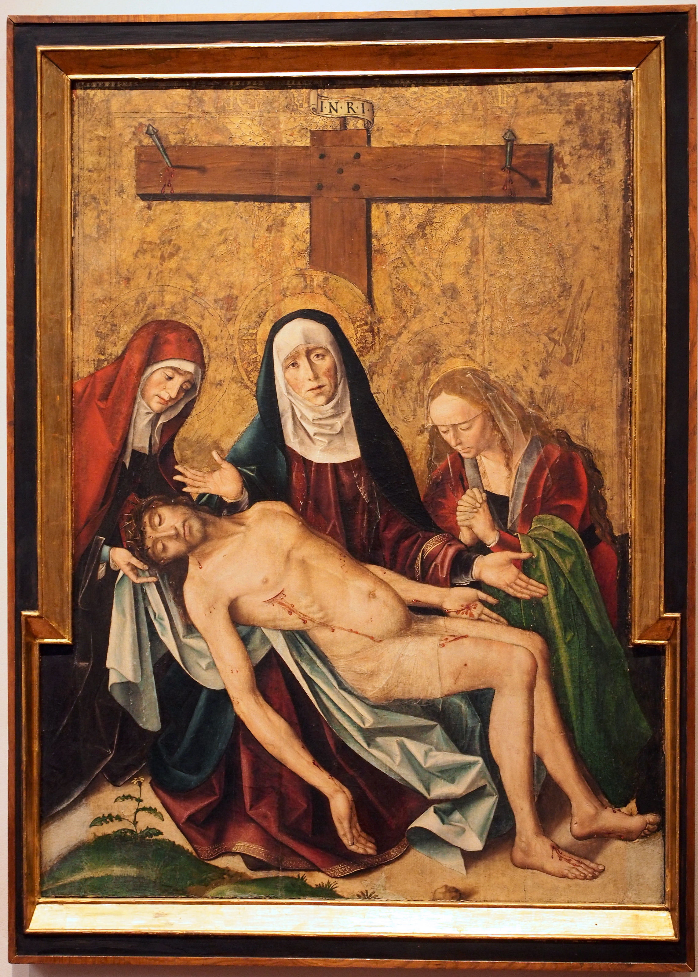 Pietá, tempera on wood painting, exposed in the Museo Nacional de Escultura de Valladolid, in Valladolid (Spain)